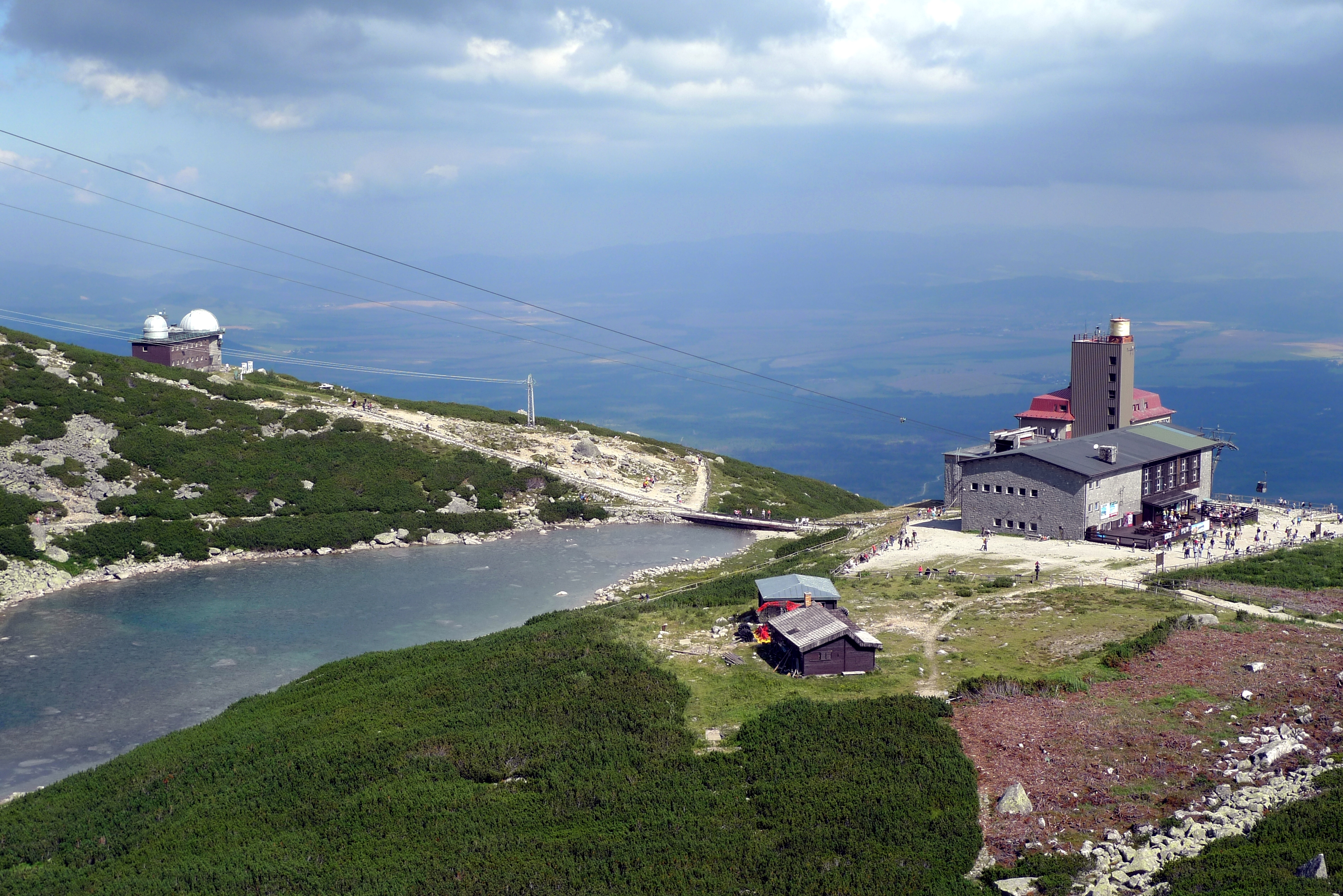 Skalnaté pleso in Vysoké Tatry, Slovakia